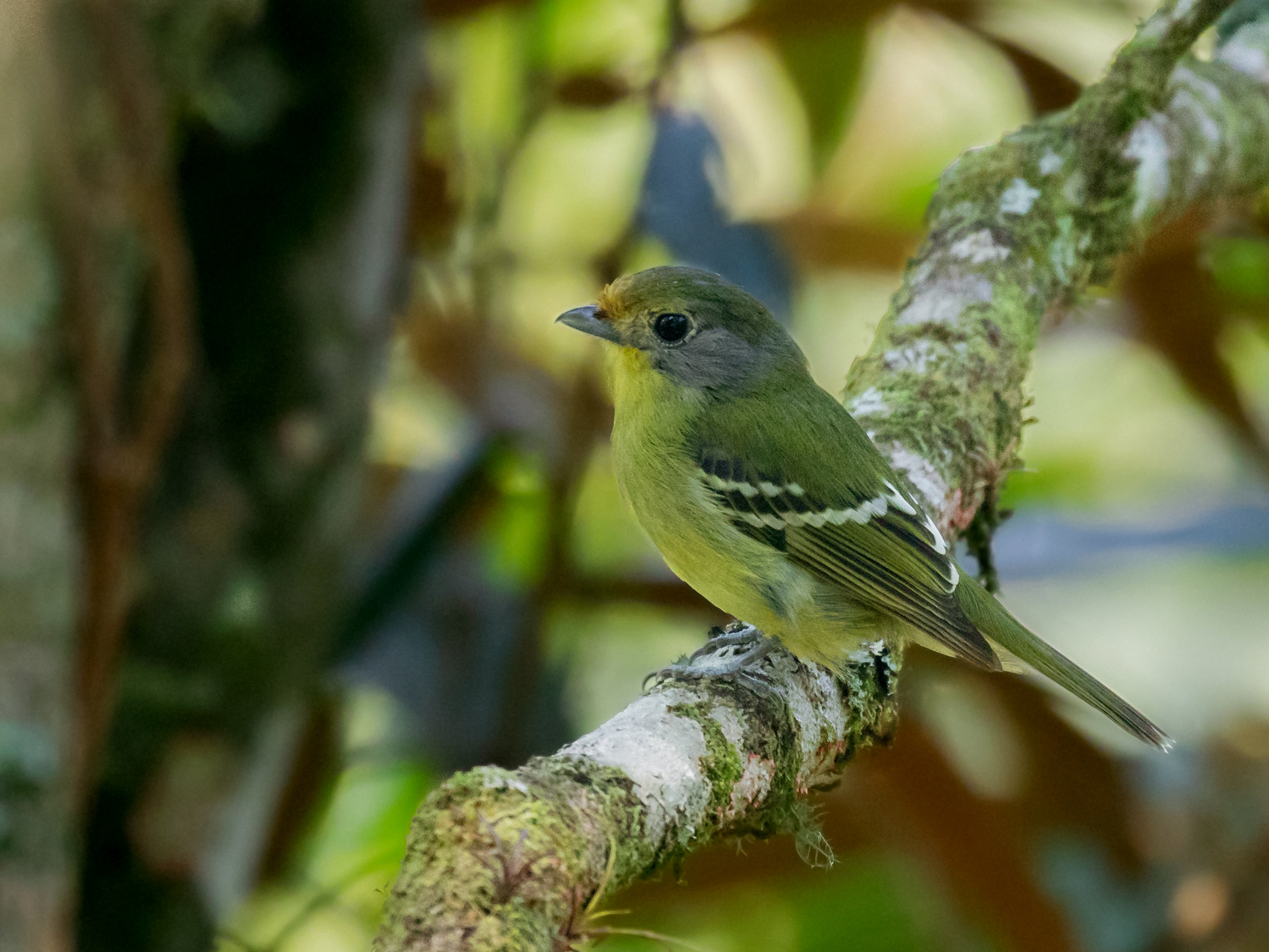 Wing-barred Piprites; Iporanga, São Paulo, Brazil